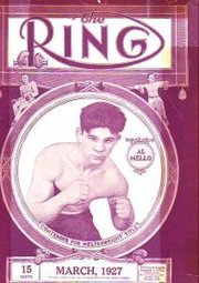 Al Mello on the cover of Ring magaizine